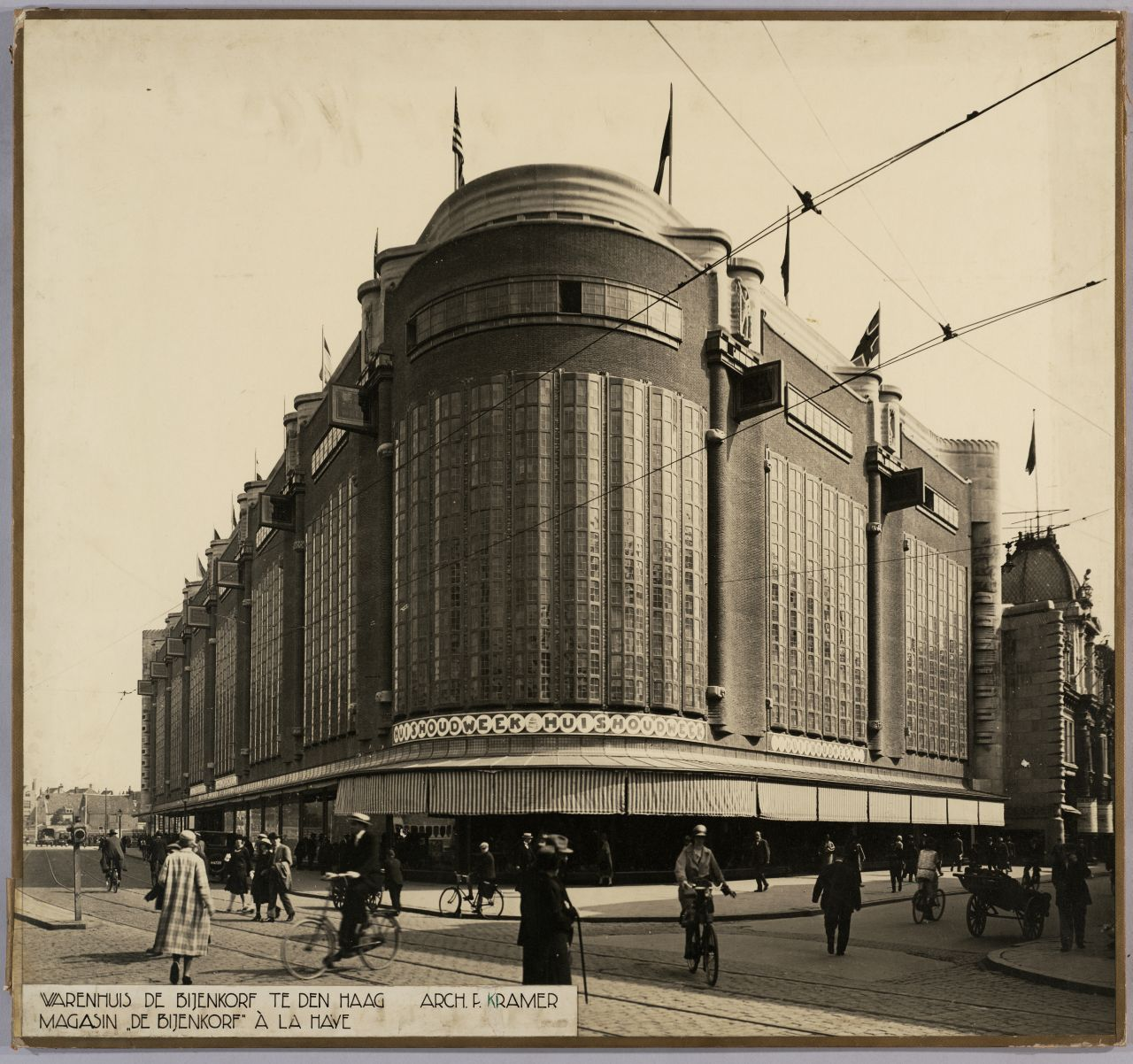 Warenhuis De Bijenkorf, Den Haag, 1926. Architect: P. Kramer. Fotograaf: onbekend. Collectie NAi / TENT_n162 URL van deze afbeelding: Meer foto's uit deze collectie kunt u bekijken in de Collectiedatabase van het NAi. Niet van alle gebouwen en interieurs zijn alle gegevens bekend. Heeft u meer informatie of weet u het adres van een gebouw? Laat dan een reactie achter (als u ingelogd bent bij Flickr) of stuur een mailtje naar: Al deze foto's zijn gemaakt in de eerste helft van de twintigste eeuw. Wij zijn benieuwd hoe deze gebouwen er vandaag de dag uitzien. Heeft u recente foto's van deze gebouwen of locaties, voeg ze dan toe als commentaar. U kunt een eigen Flickr-foto toevoegen door de URL ervan tussen vierkante haken in het commentaarveld te plakken. Als uw foto's een Creative Commons licentie hebben, nemen we ze bovendien graag op in de NAi Collectiedatabase. De Bijenkorf Department Store, The Hague, 1926. Architect: P. Kramer. Photographer: unknown. NAI Collection / TENT_n162 Persistent URL: For more photographs from this collection, please visit the NAI Collection Database You can help us gain more knowledge on the content of our collection by adding a comment with information. If you do not wish to log in, you can write an e-mail to: All these pictures are taken in the first half of the twentieth century. We are curious to learn how these buildings look like today. If you have recently taken photographs of these buildings or locations, please add them to your comment. If you'd like to include a Flickr photo, simply copy and paste its URL between square brackets in the commentary-field. Photos with a Creative Commons licence may be used to illustrate the NAi Collection Database.